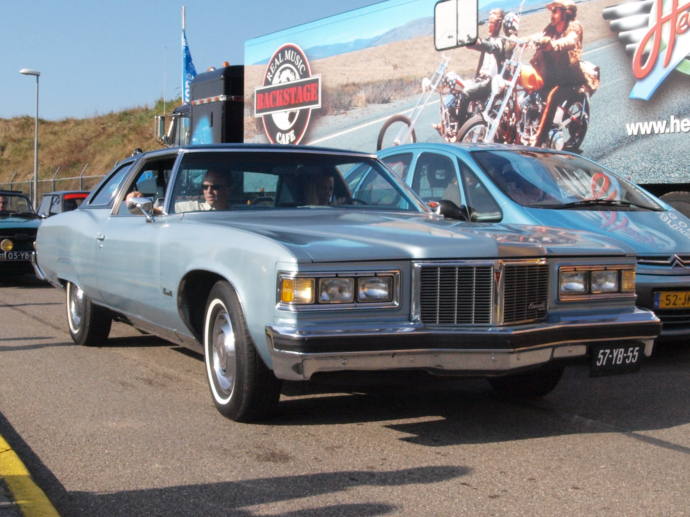 Photographed at the Nationaal Oldtimer Festival Zandvoort 2009, The Netherlands. OLYMPUS DIGITAL CAMERA